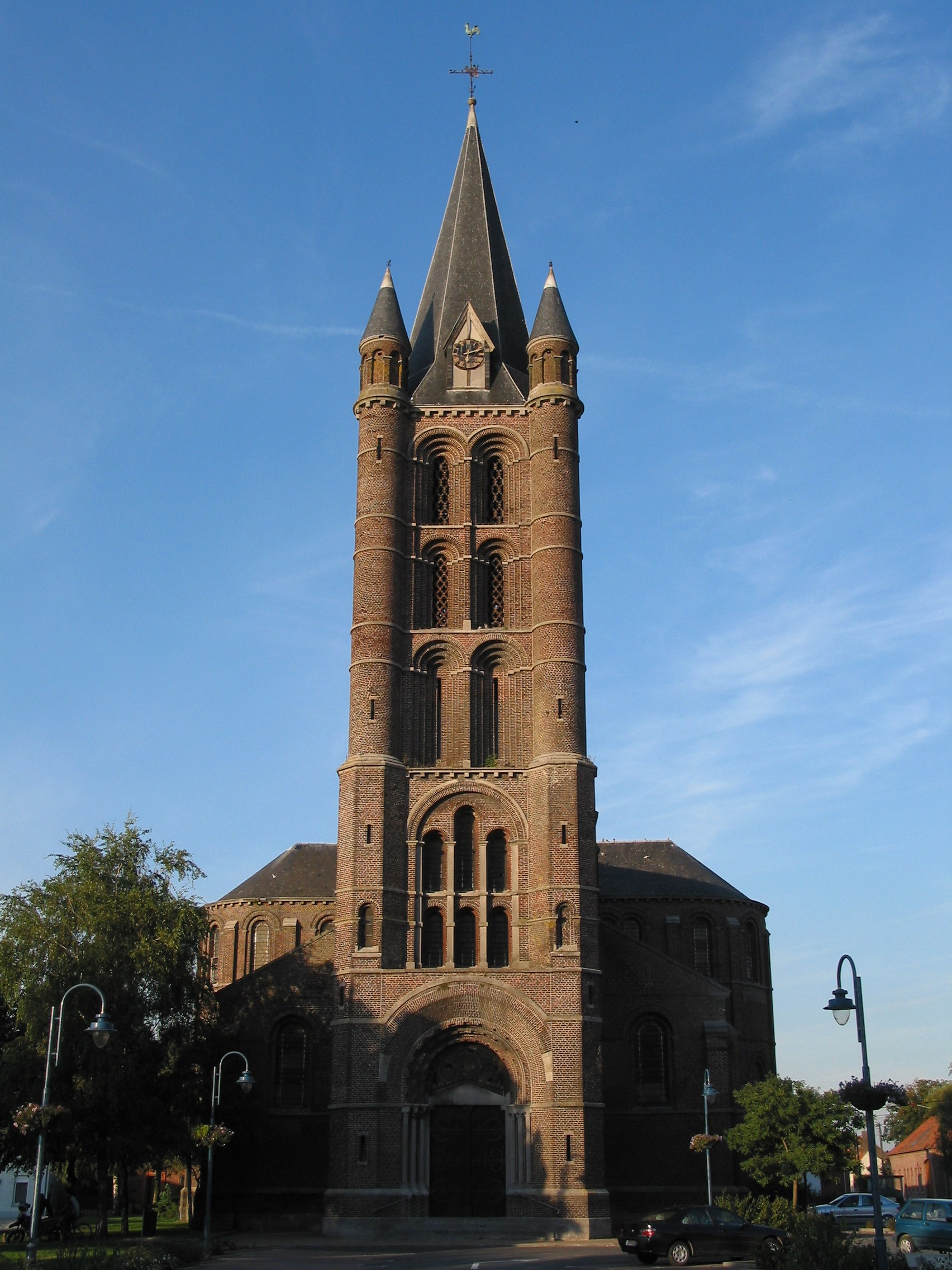 Hérinnes (Belgium), the St. Aldegonde church (1865 – Architect: J. Bruyenne).